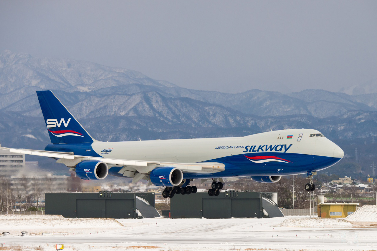 Silk Way West Airlines Boeing B747-8F VQ-BVC landing at Komatsu Airport in Japan on the first flight from Azerbaijan